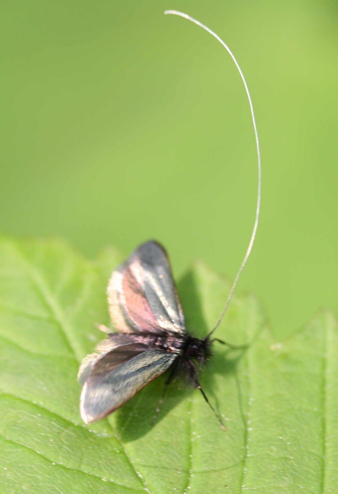 male Adela reaumurella 7 may 2006 IJmuiden, the Netherlands